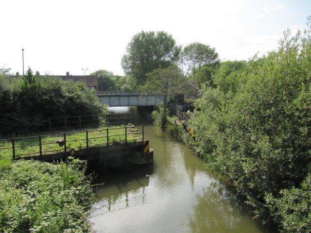 Looking up the canal. View looking past the railway swing bridge up the Sheepwash Channel in Oxford near the station.